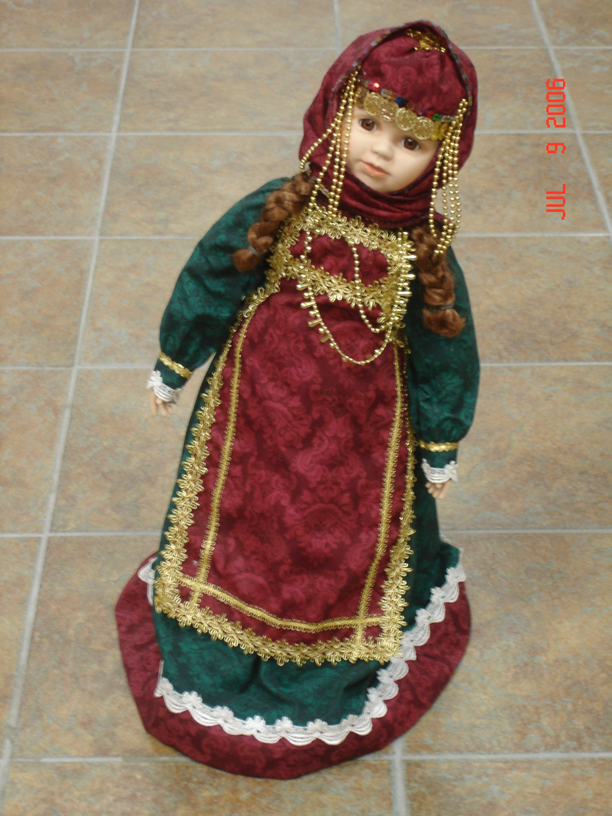 A doll in Armenian dress